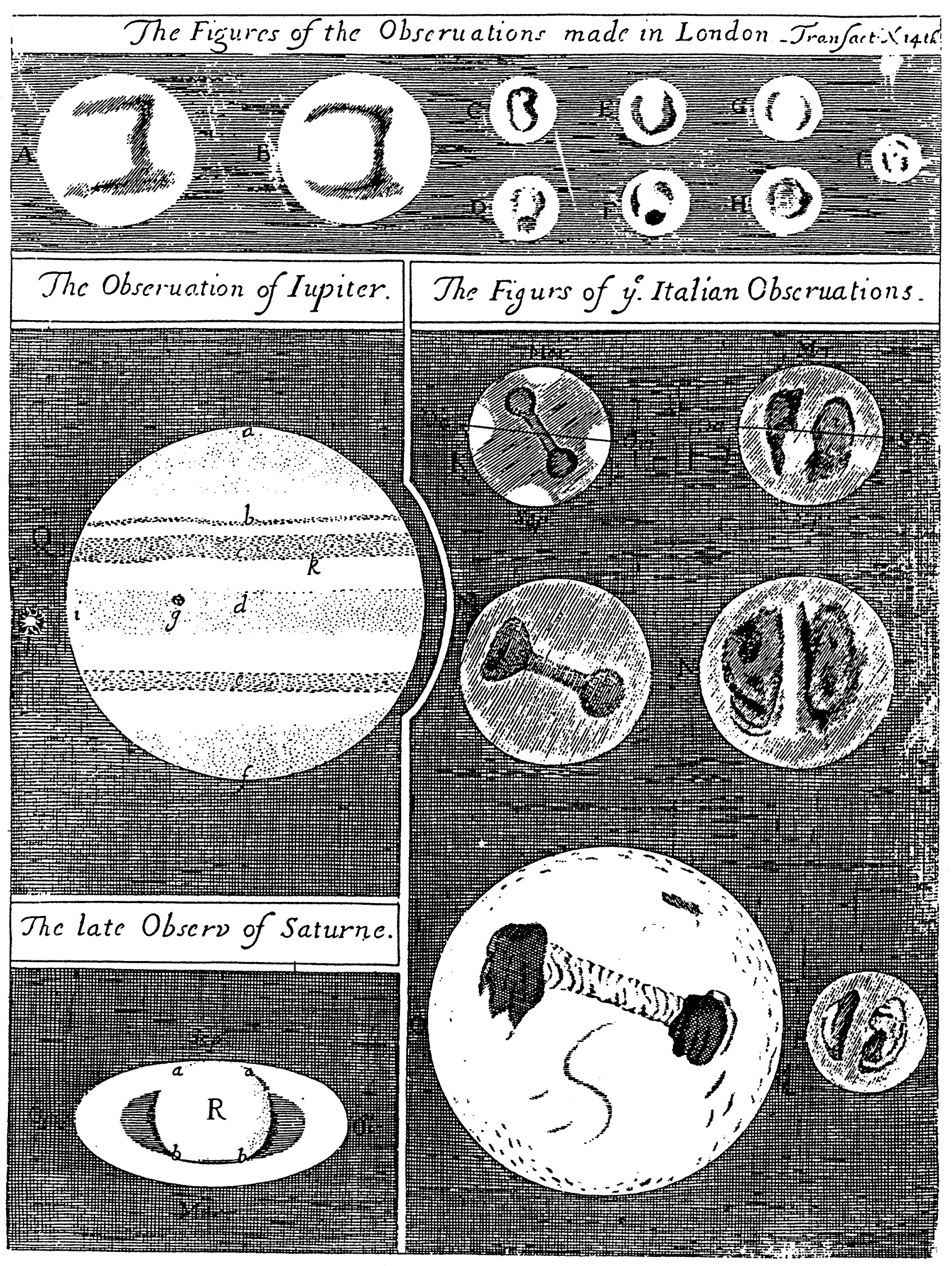 Drawings of Mars, Jupiter and Saturn